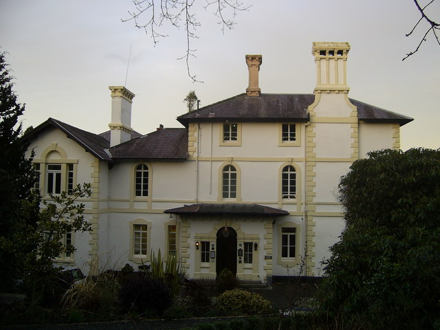 Falcondale Mansion Hotel. This grand Italianate mansion stands in the south of the grid-square and was built in the 1850s by John Battersby Harford. It was converted into an hotel in 1980. The 20,000 acre Falcondale Estate which fills most of this grid-square was created in the 1820s by John Battersby Harford's Father and Uncle. The latter of the two, John Scandrett Harford, donated the land for Lampeter University to be built upon, and remained a benefactor of the college for many years.